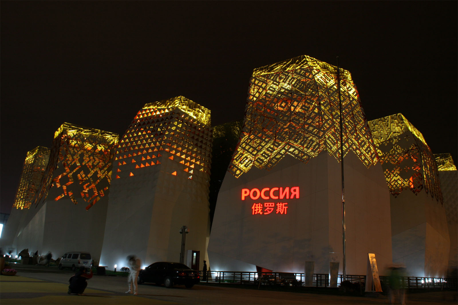 Russia Pavilion of Expo 2010